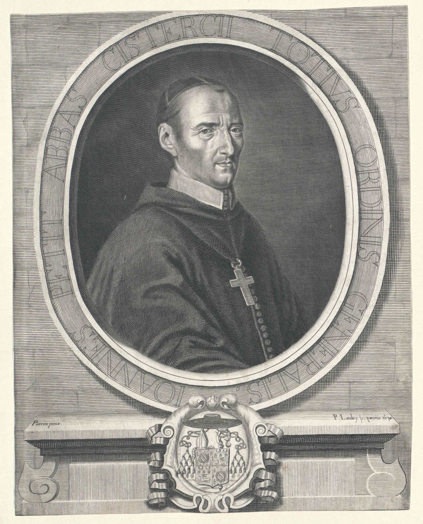 Portait of Jean Petit, abbot of Cîteaux (1670-1692).